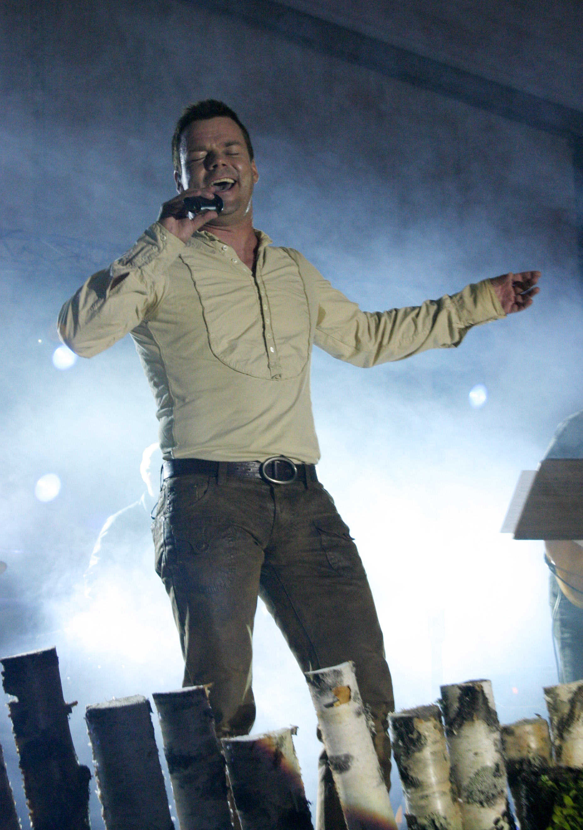 Jari Sillanpää in Vihreät Niityt music festival in the summer 2006.